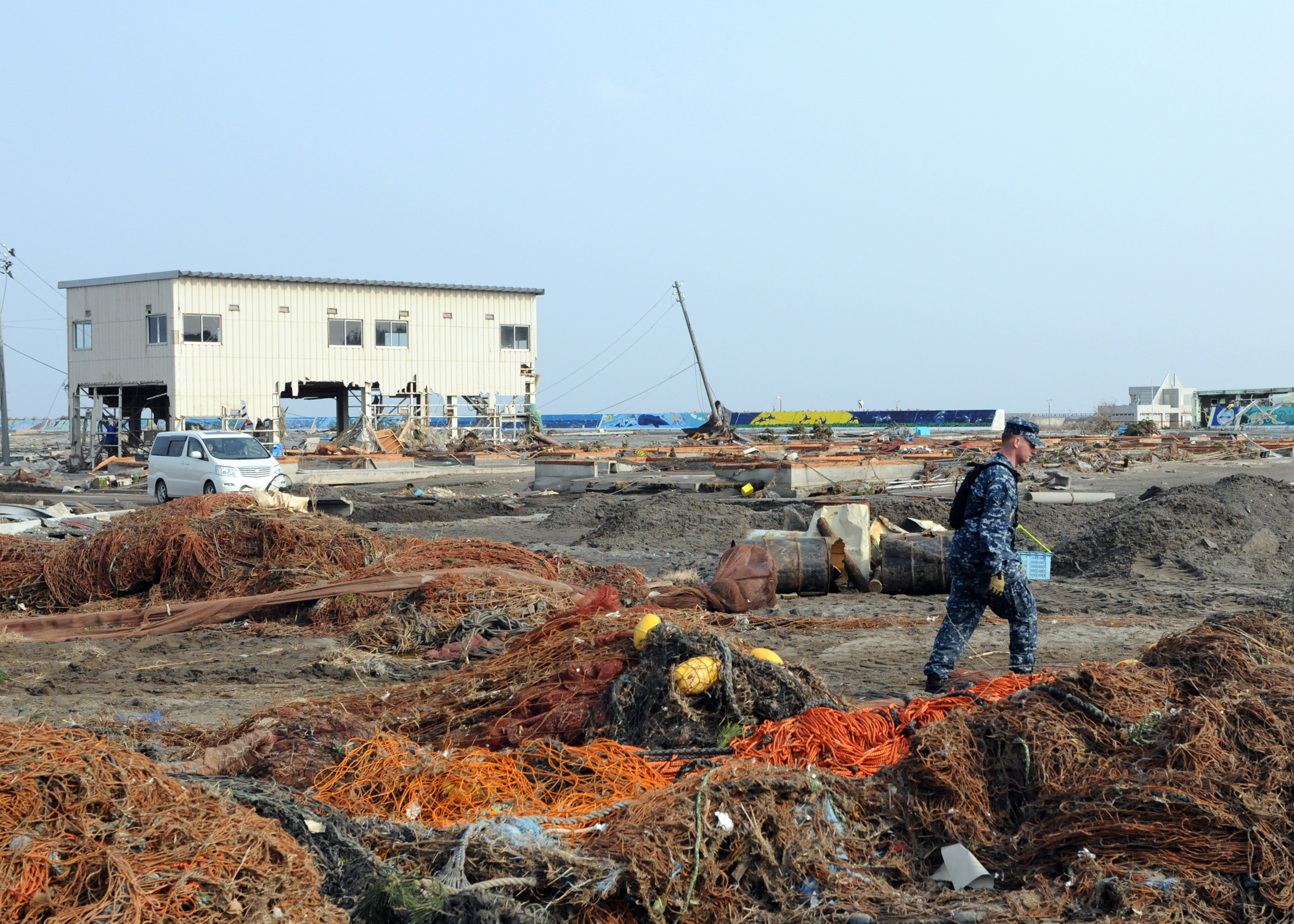 MISAWA, Japan (March 14, 2011) Mineman 2nd Class Cody Stone, from Phoenix, assigned to Naval Air Facility Misawa, walks through debris during a cleanup effort at the Misawa Fishing Port. More than 90 Sailors from Naval Air Facility Misawa volunteered to help Misawa City employees and members of the community begin to clean up after an earthquake and tsunami. (U.S. Navy photo by Mass Communication Specialist 2nd Class Devon Dow/Released)